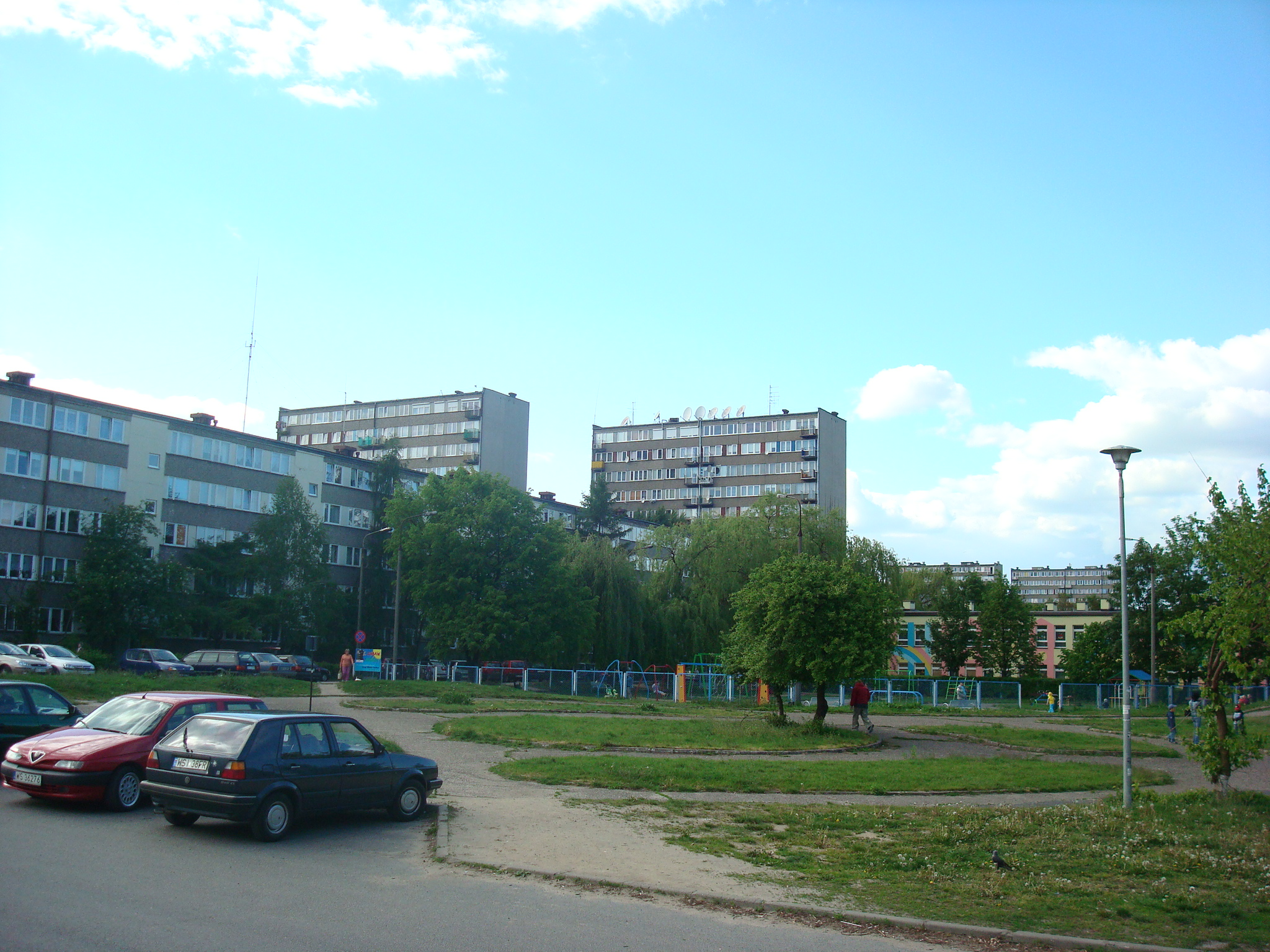 Housing estate of millennium in Siedlce (II period)